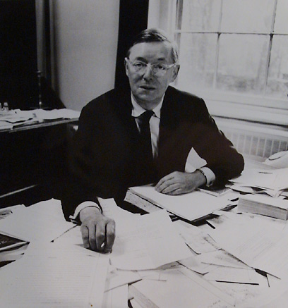 Sir John Pope-Hennessy, CBE, FBA, FSA. Director and Secretary of the Victoria and Albert Museum, 1967 – 1973.